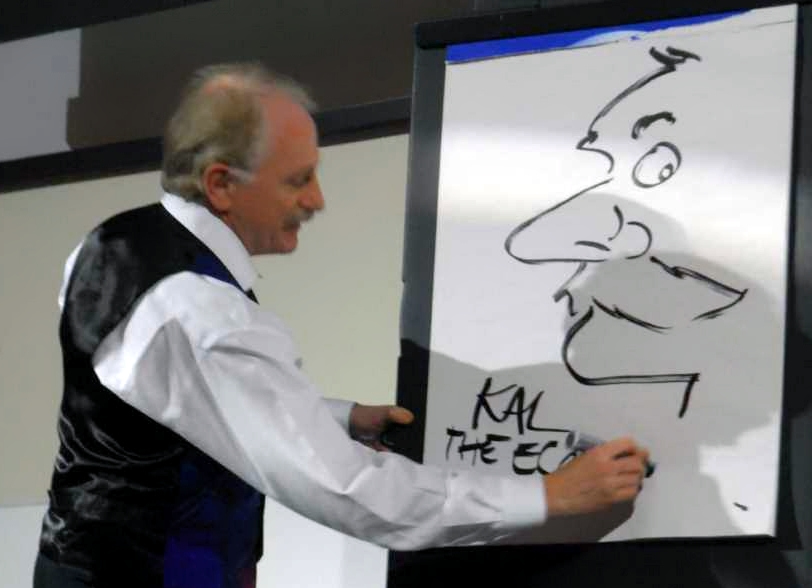 Warwick Economics Summit 2009 - Kevin Kallaugher